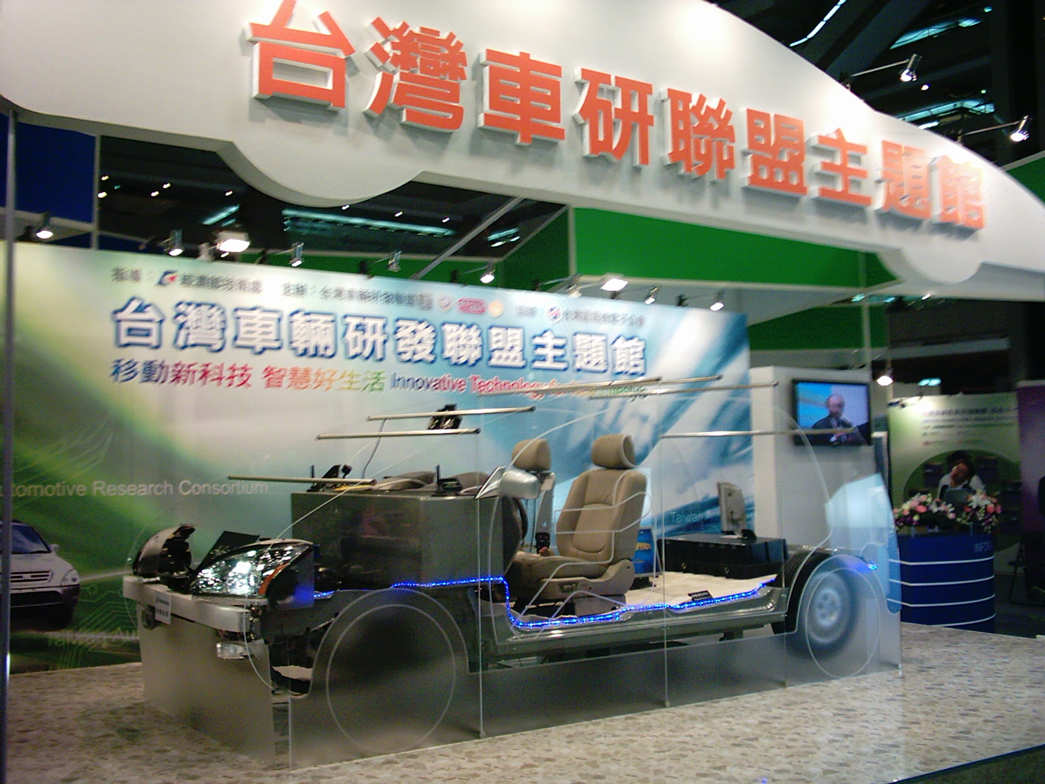 Taiwan Automotive Research Consortium show the concept future car "T-Car" at AutoTronics Taipei 2006.